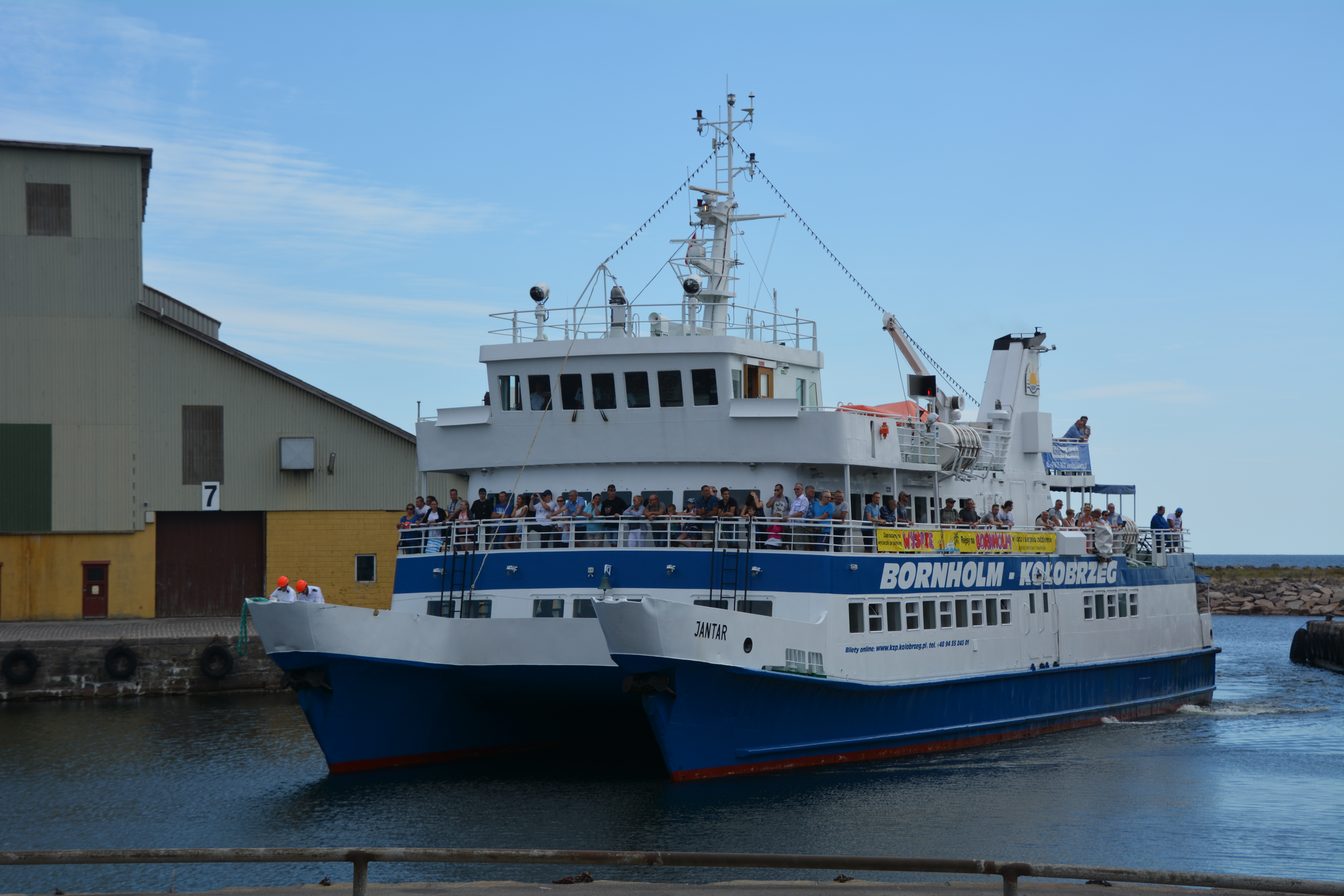 M/F Jantar, Nexö harbour, Denmark